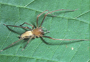 female Cheiracanthium eutittha from Okinawa.